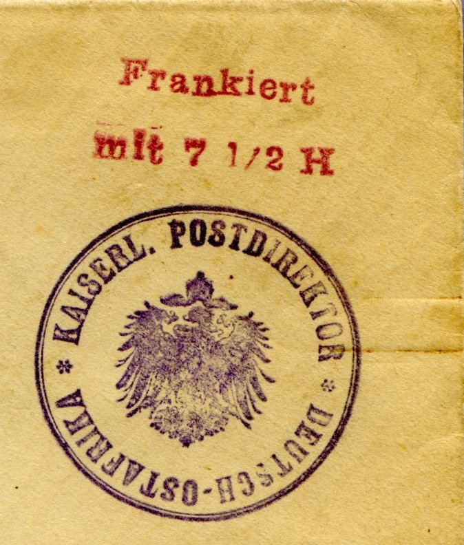 German East Africa- 1916 Indicium applied by postmaster